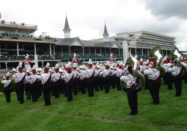 The University of Louisville Marching Band at the Kentucky Derby, taken during a race